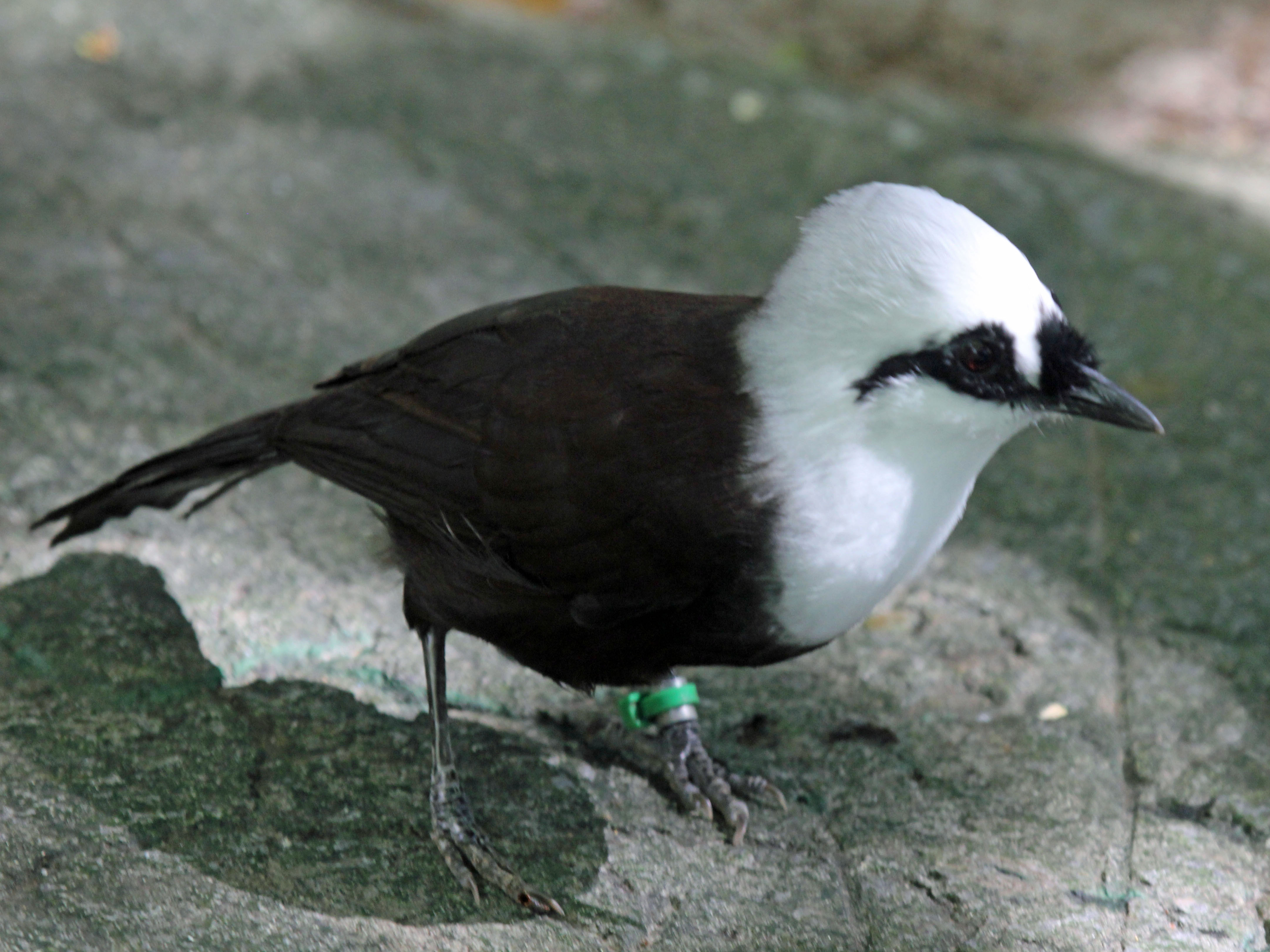 Sumatran Laughingthrush, also Black-and-white Laughingthrush (Garrulax bicolor) - Miami Zoo